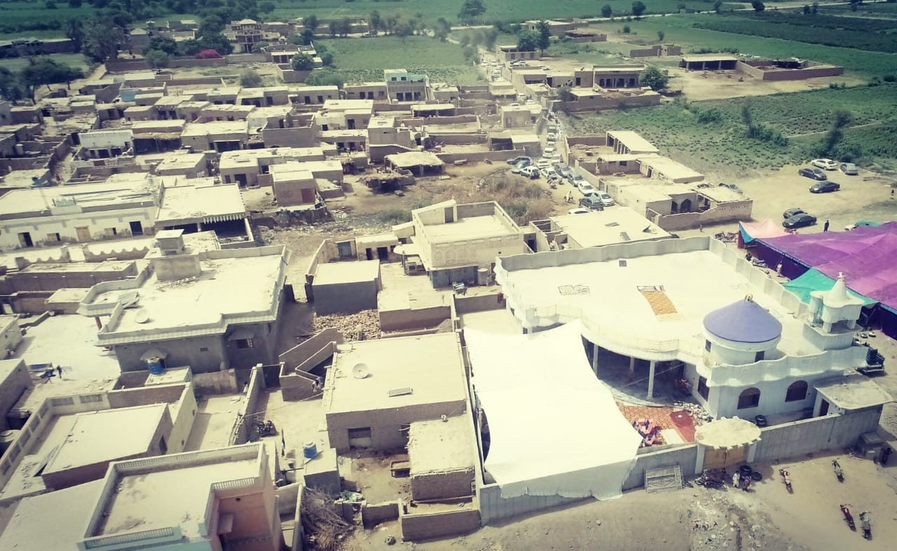 This Picture represent to Village Moosa Panhwar